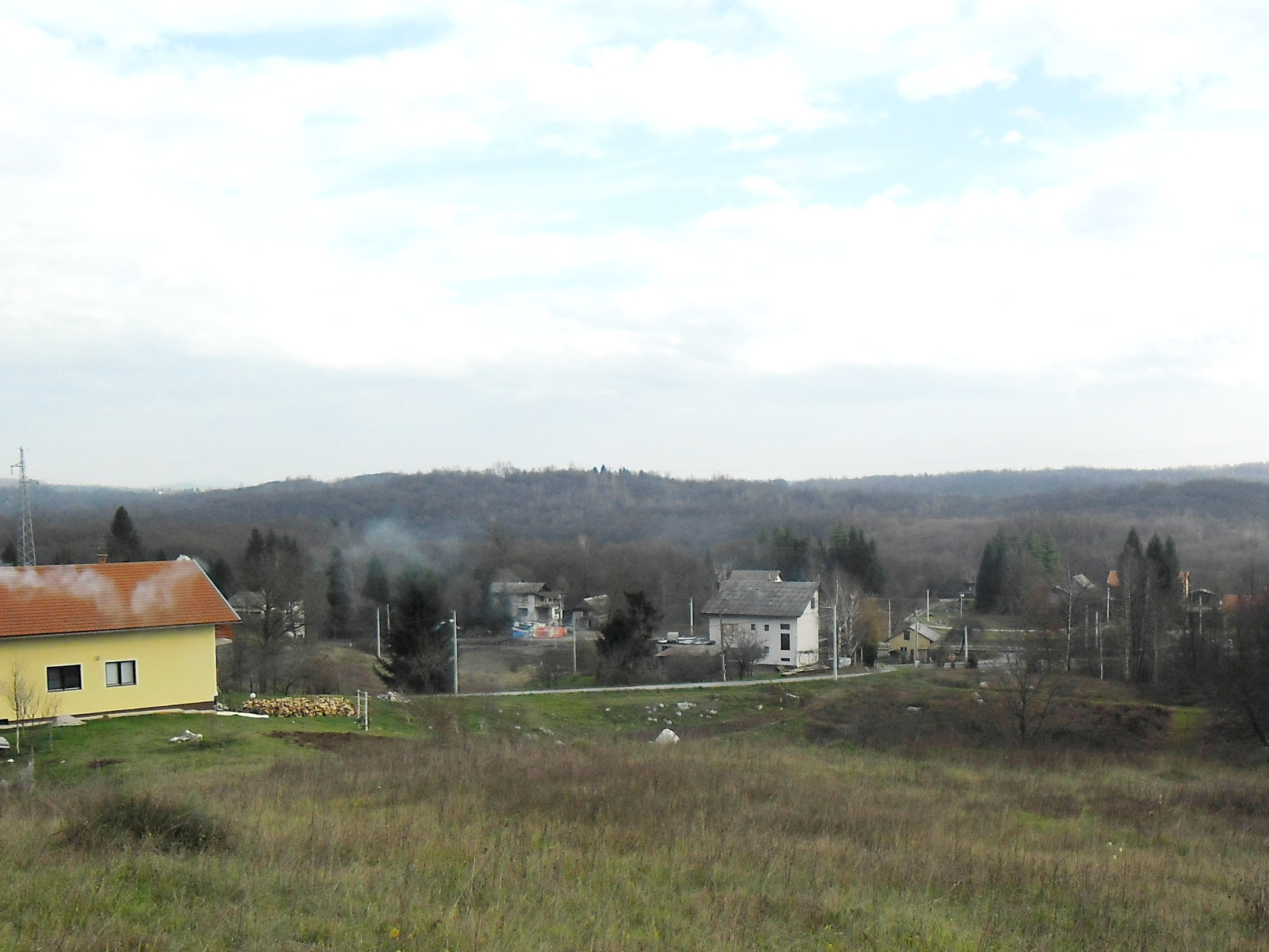 Village of Gornji Zvečaj, Croatia